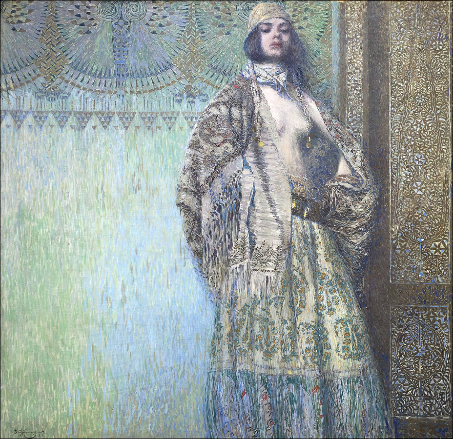 Salome by Vardges Surenyants, 1907